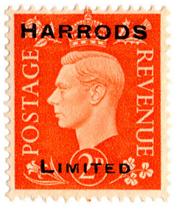 Harrods Limited commercial overprint on British dark colours 2d definitive stamp of 1938.